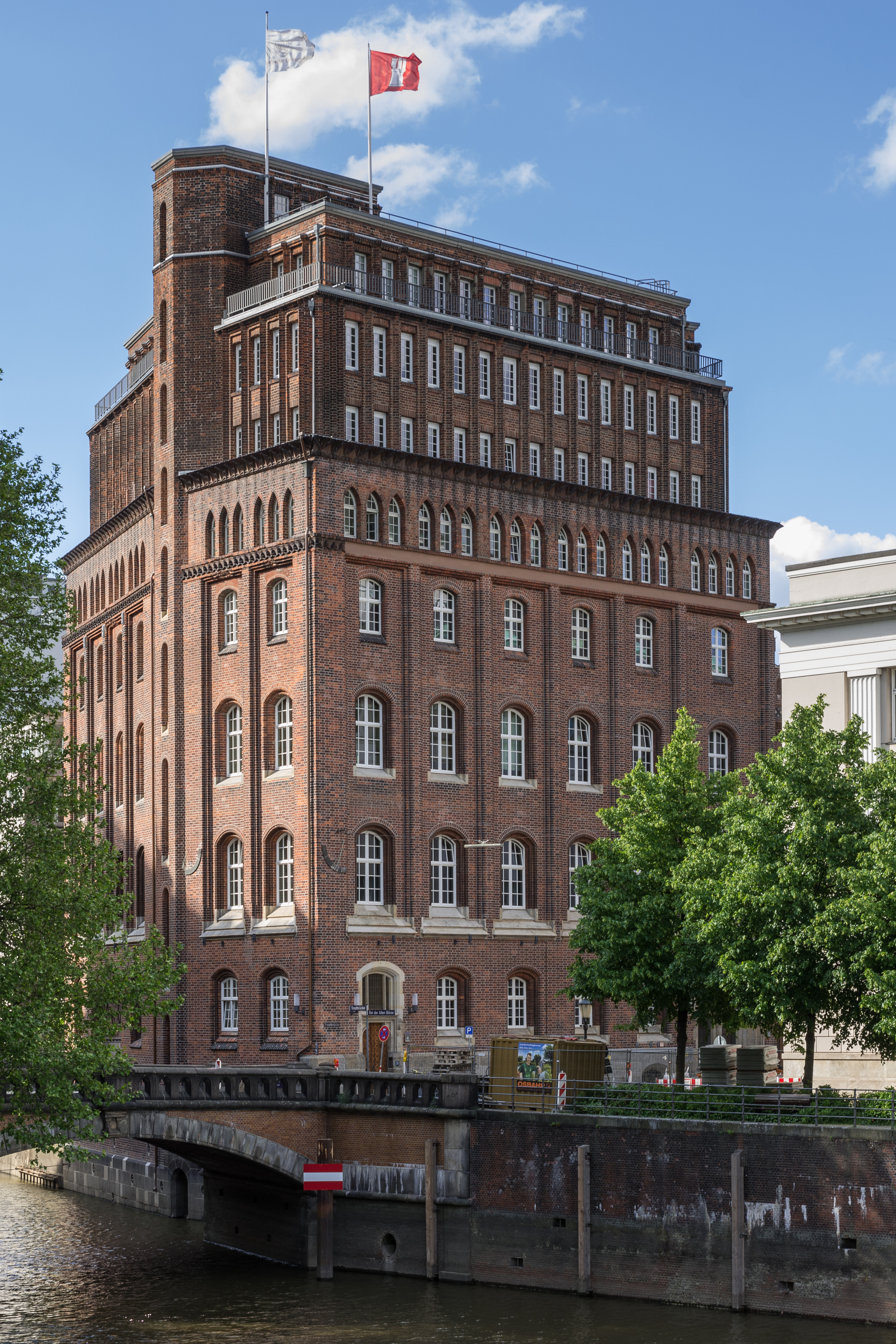 1847This is a photograph of an architectural monument.